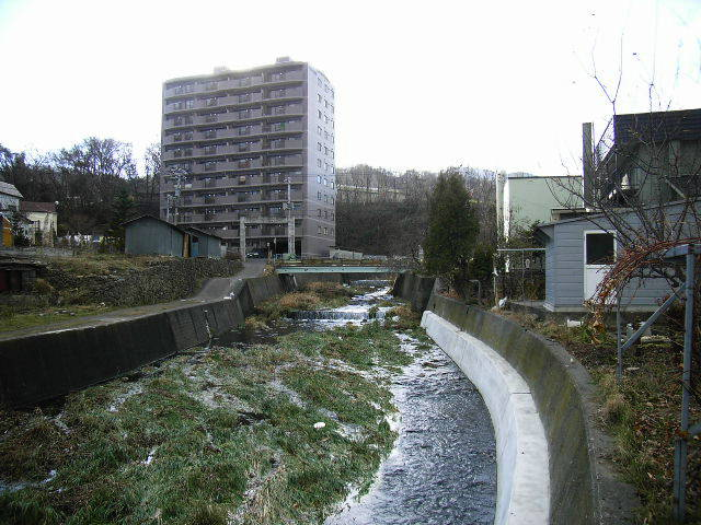 Zenibako River. The bridge is Zenibako Naka-no-hashi (Zenibako Middle Bridge). Zenibako 1 chōme. Otaru, Hokkaidō, Japan.